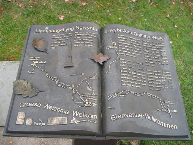 Ann Griffiths walk memorial Lies in Llanfihangel-yng-Ngwynfa by the war memorial